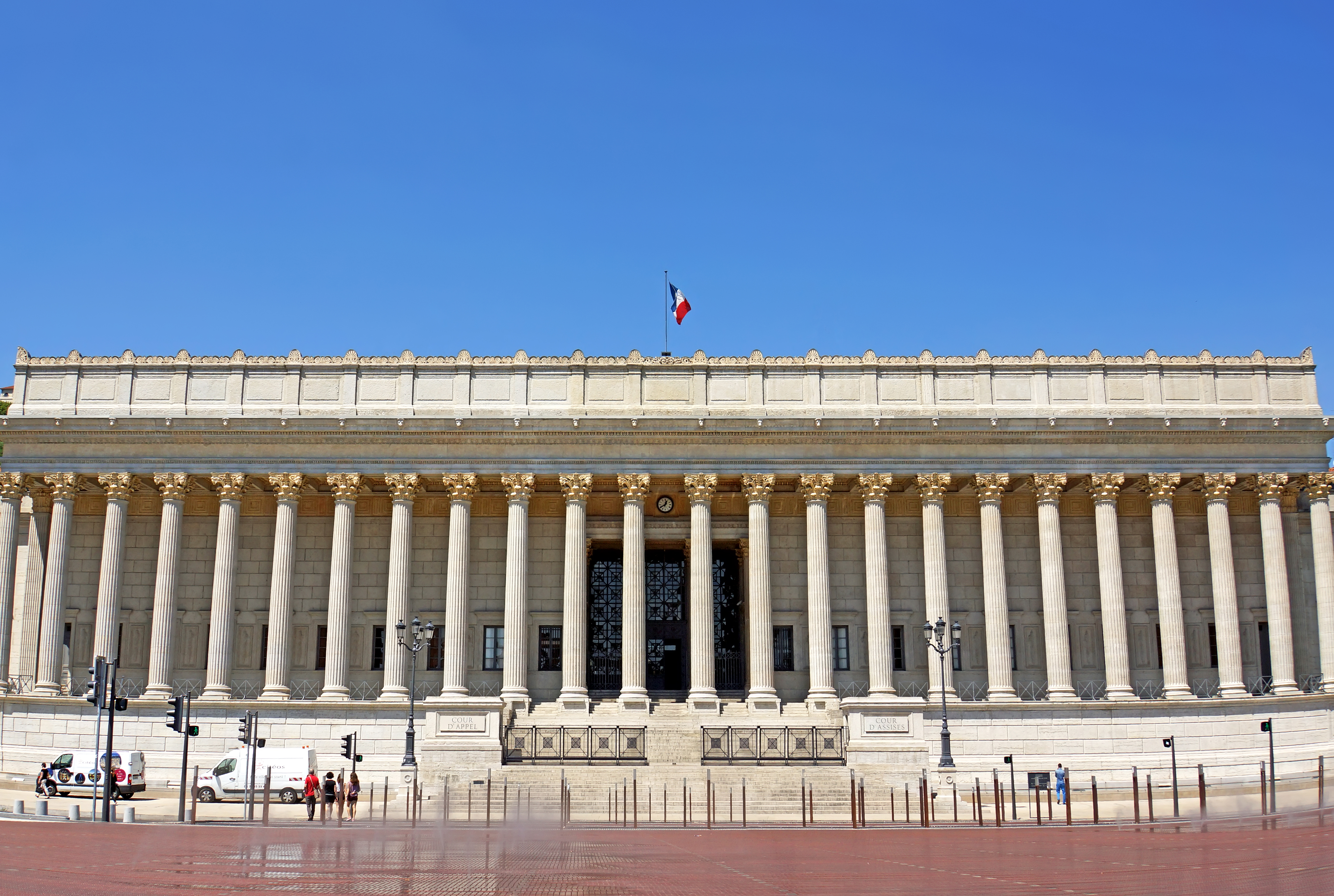 PLEASE, NO invitations or self promotions, THEY WILL BE DELETED. My photos are FREE to use, just give me credit and it would be nice if you let me know, thanks. Palace of Justice, construction began in 1835 and ended in 1842. Designed by French architect Louis-Pierre Baltard, the Palais is one of France’s most impressive 19th-century buildings, filled with neoclassical details that run in contrast to the flamboyant Rococo style of the time. Known as the “Palace of the 24 Columns,” Baltard’s design was given the grand seal of approval by the French government in 1996 and officially named a “monument historique.”